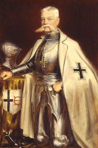 A portrait of Anne Willem Jacob Joost Baron van Nagell, the former Landcommandeur of the Ridderlijke Duitse Orde Balije van Utrecht from 1918 to 1936.